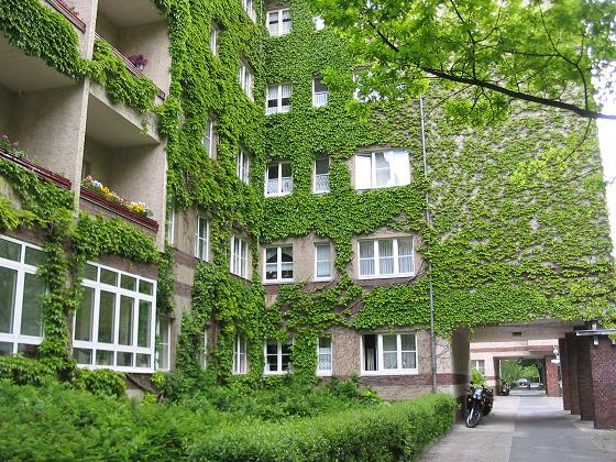 Tower block near the "Schoelerpark", Berlin